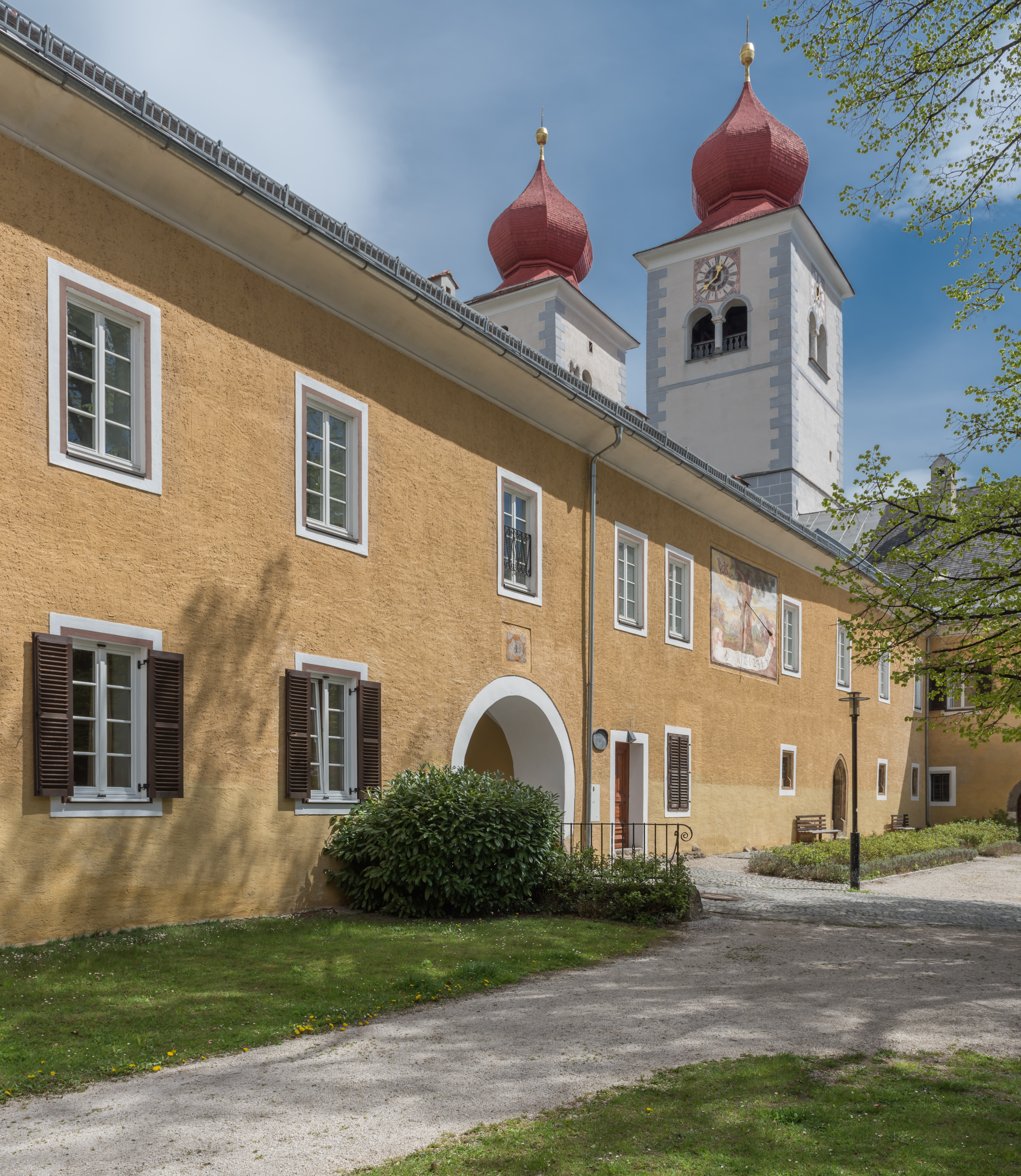 Eastern view at the inner yard of the Benedictine Abbey on Stiftgasse, market town Millstatt, district Spittal an der Drau, Carinthia, Austria, EU